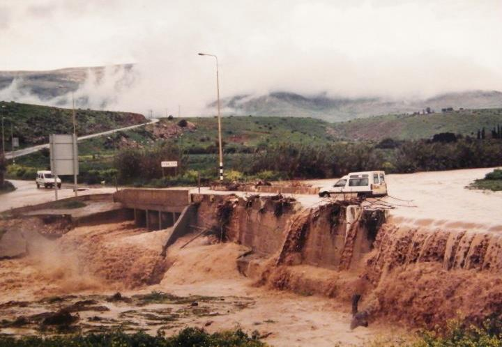 Winter 92 was particularly difficult